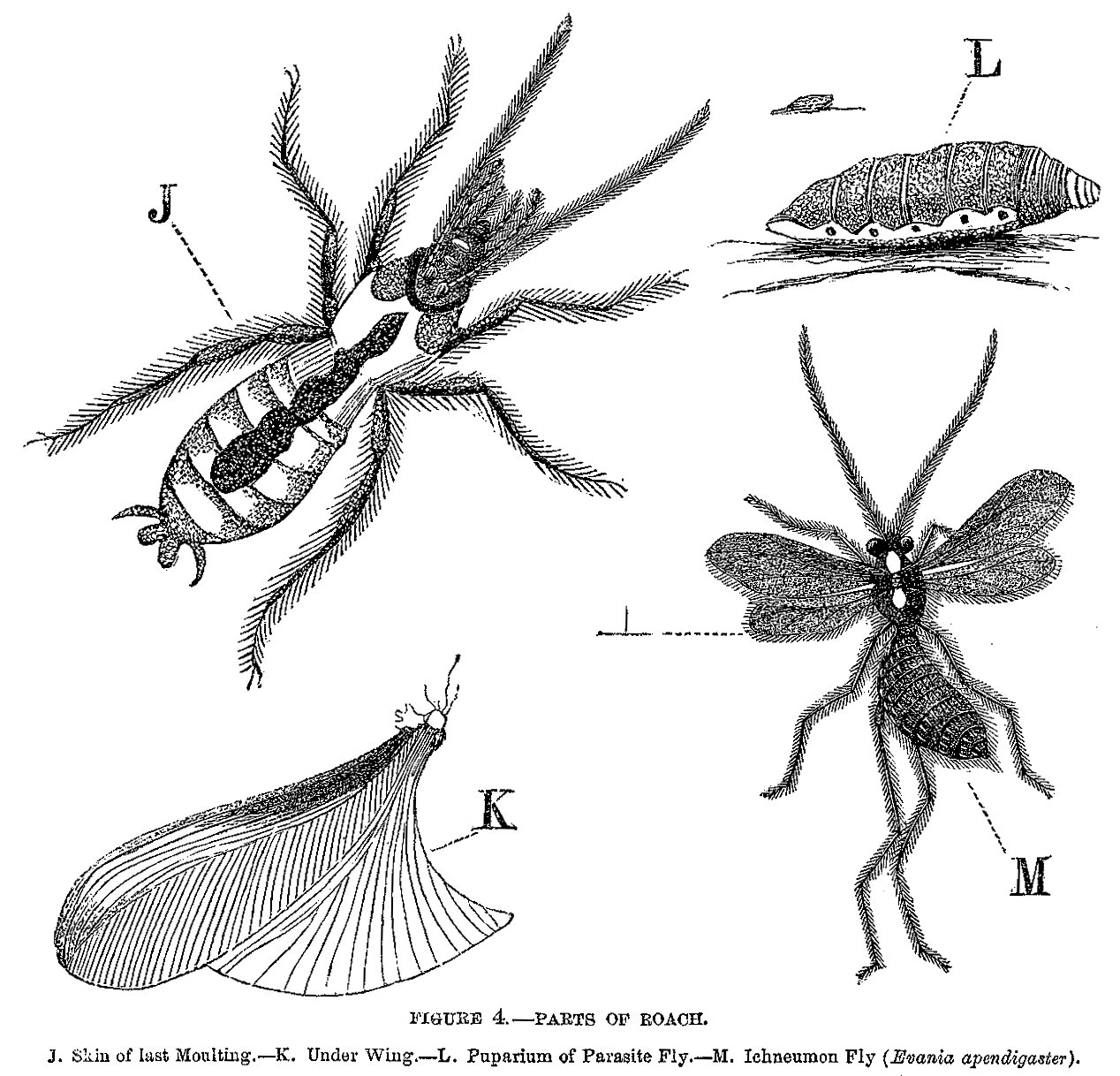 "Figure 4.—Parts of roach. J. Skin of last Moulting.—K. Under Wing.—L. Puparium of Parasite Fly.—M. Ichneumon Fly (Evania apendigaster)." The latter of these would now be spelled Evania appendigaster From context, this is Periplaneta americana